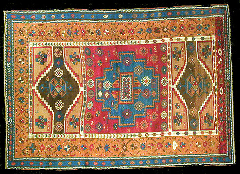 Anatolian Yoruk rug, c. 1880